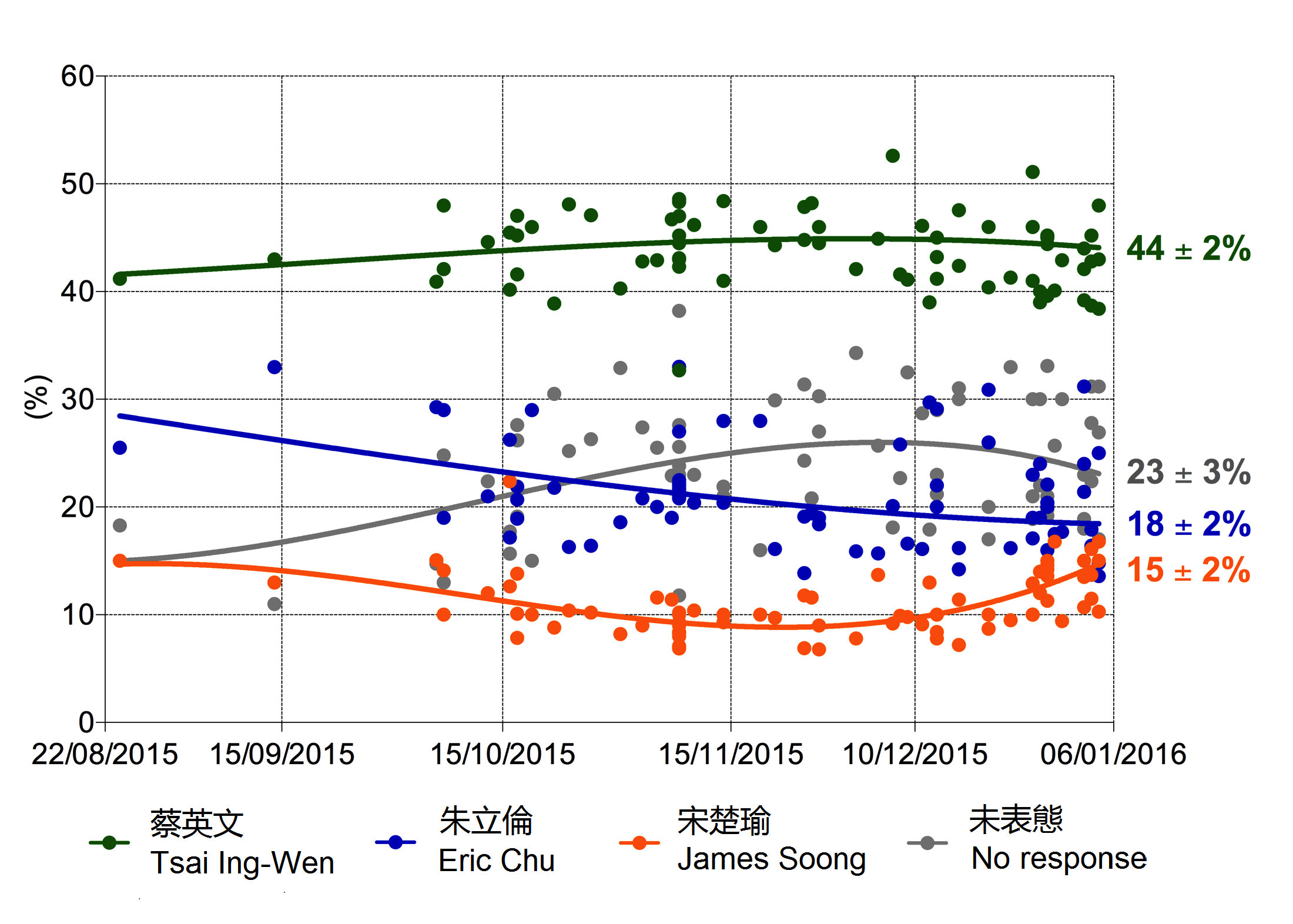 Polling for the 2016 Presidential Election with the eventual nomination of Eric Chu by the KMT. Polynomial regression model used.